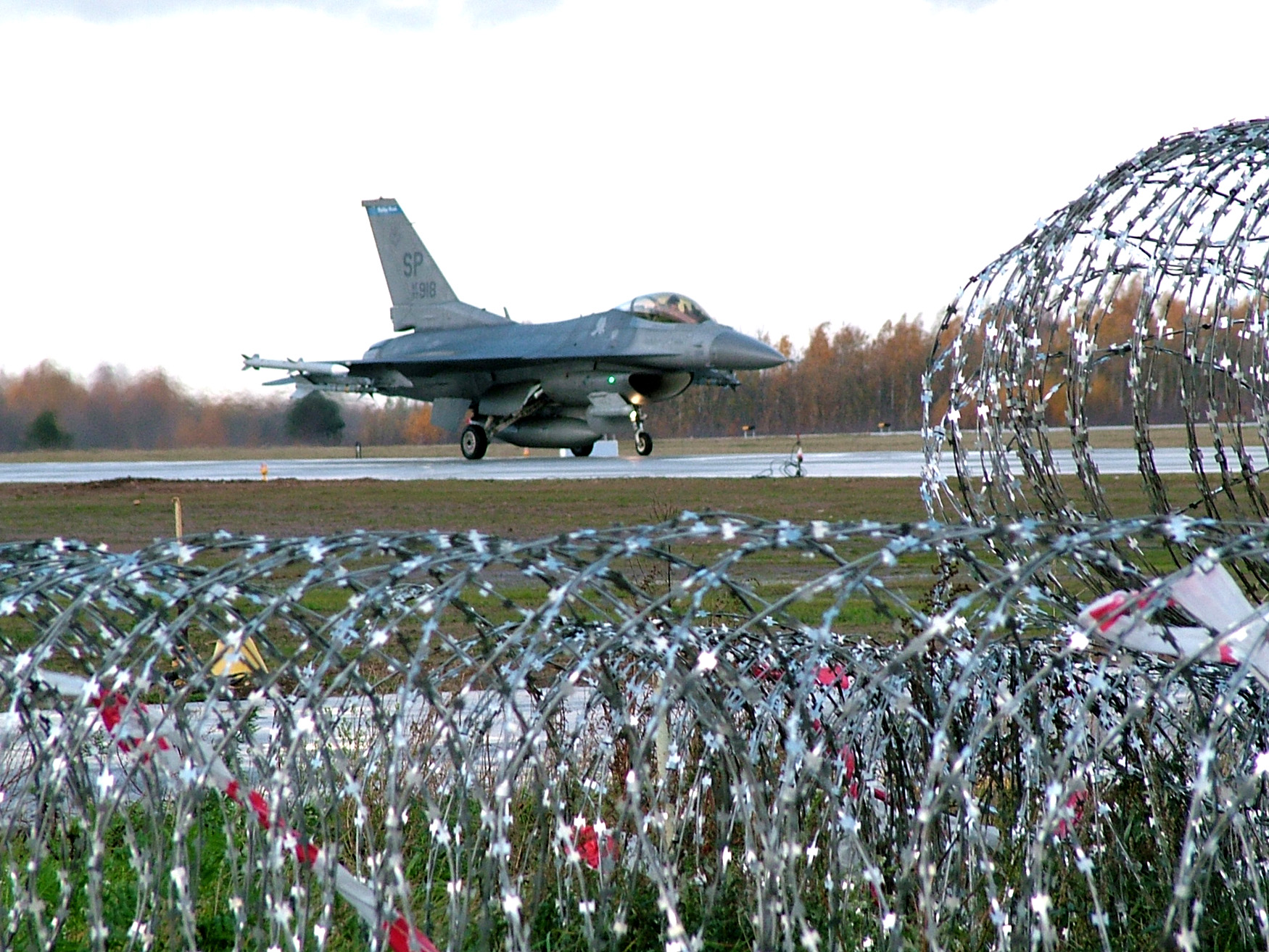 SIAULIAI, Lithuania (AFPN) -- Capt. Joey Gaona taxis along the flightline after a training flight here. Captain Gaona is a pilot assigned to the 23rd Expeditionary Fighter Squadron. The 23rd EFS is participating in NATO's Baltic Air Policing mission, providing 24-hour security over the skies of Lithuania, Latvia and Estonia. (U.S. Air Force photo by Capt. Thomas Crosson)